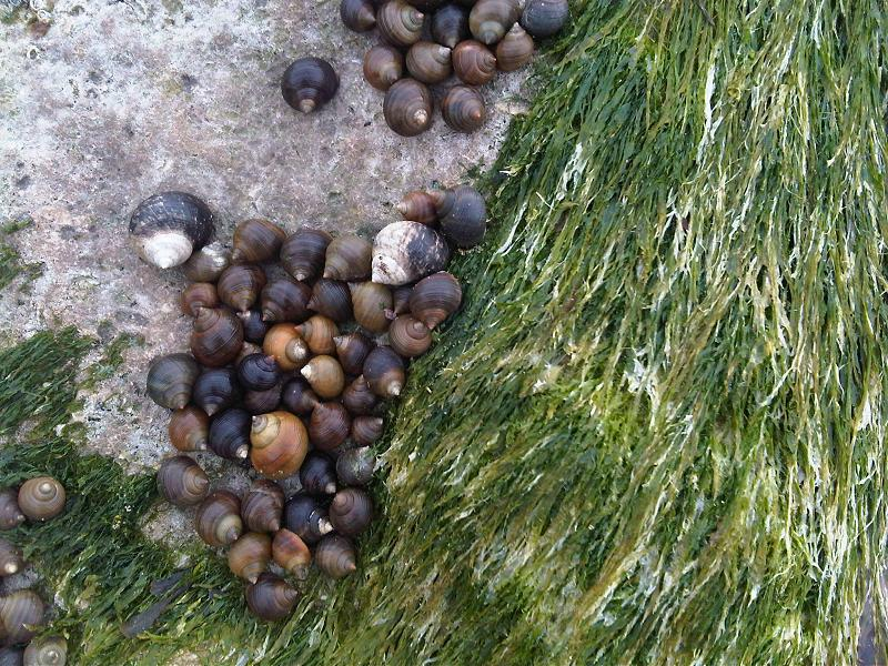 Rough periwinkles (Littorina saxatilis) and Ulva compressa in Isle of Wight, England seashores.